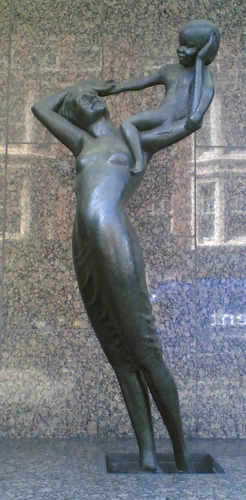 Sculpture outside main entrance to Portland Hospital for Women and Children, Great Portland Street, London. The statue is by David Norris, made in 1983.